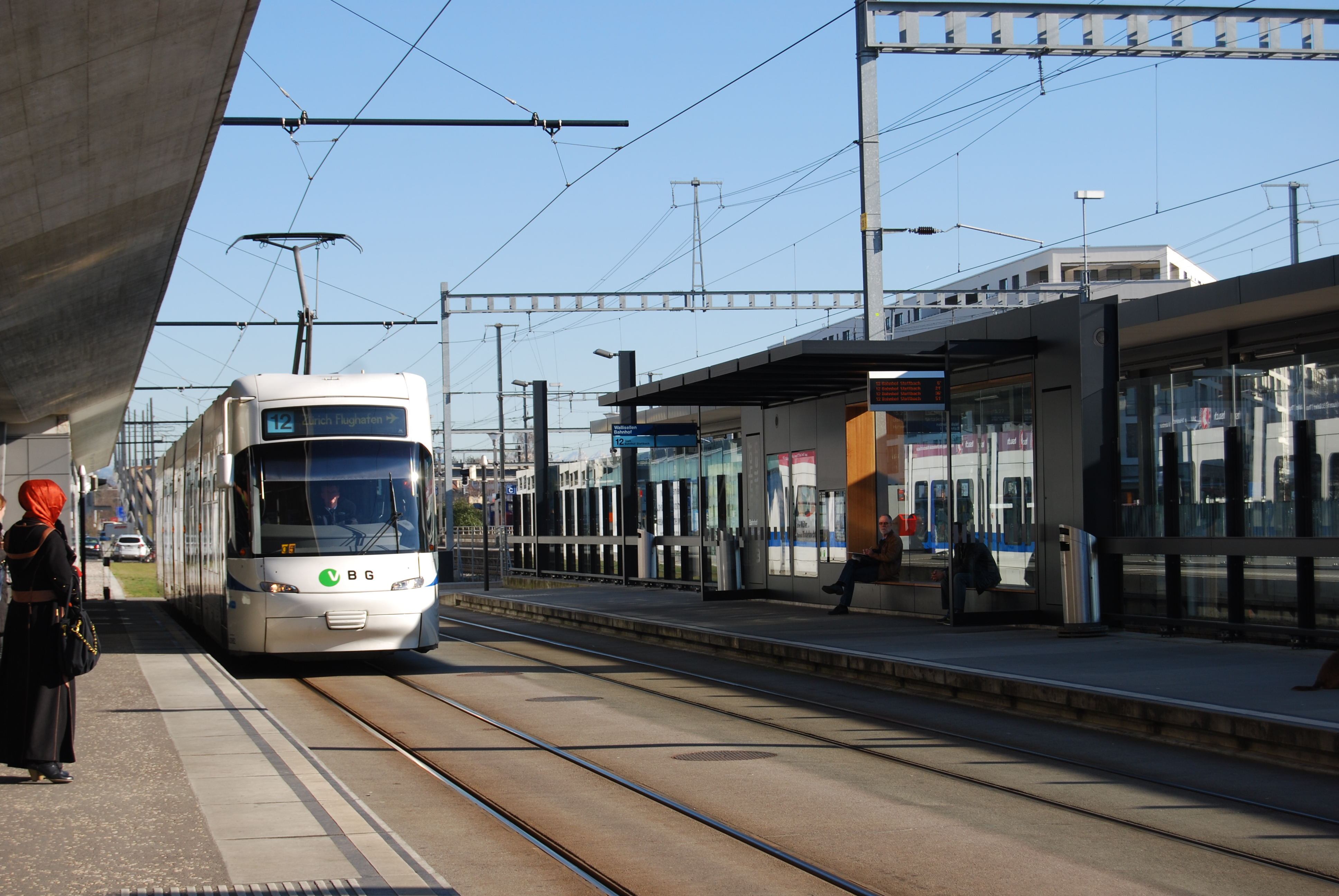 Railway station Wallisellen, canton of Zürich, Switzerland